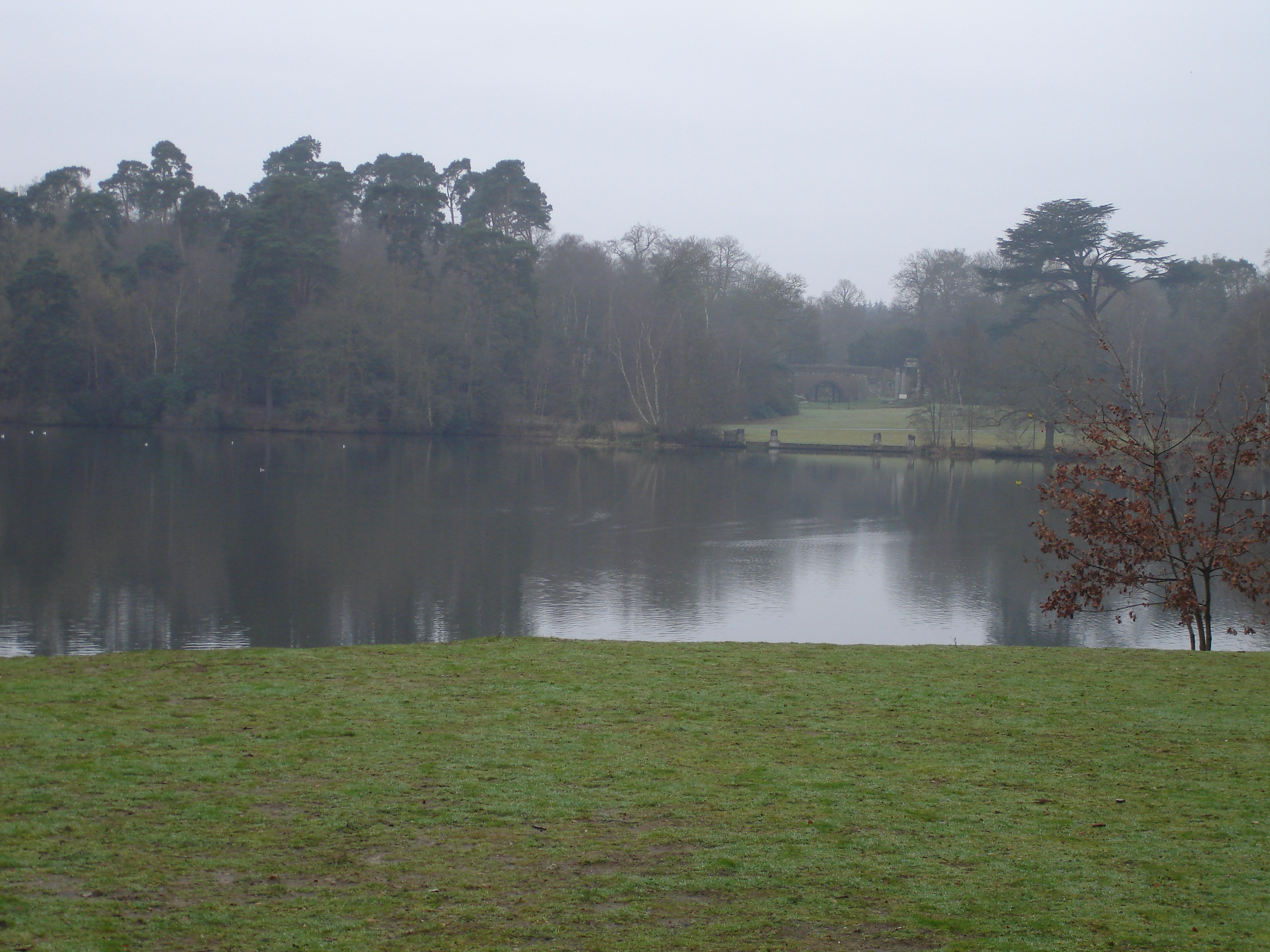 Suzanne Knights, my photo